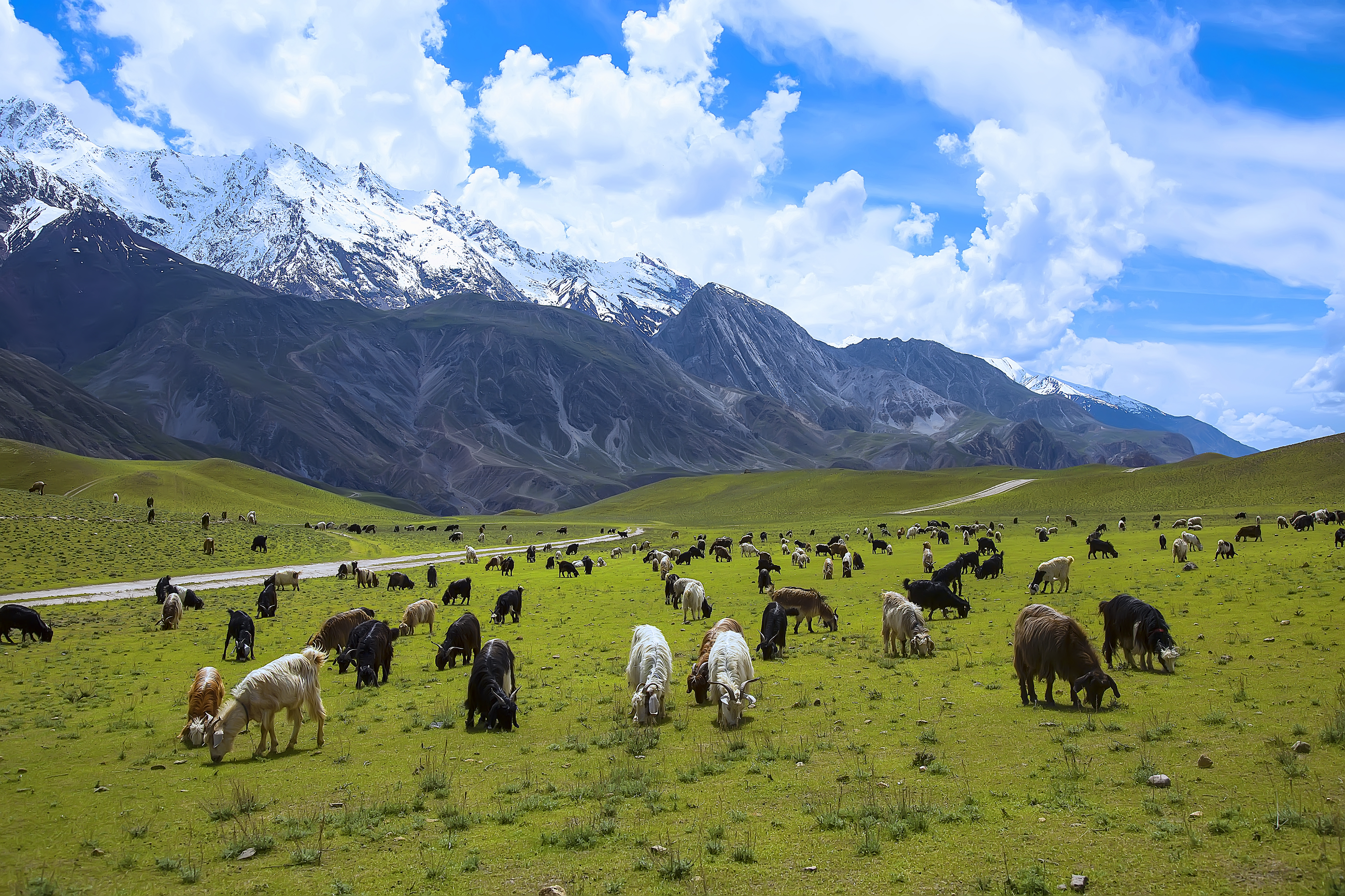 Chitral National Park is one of the national parks of Pakistan. It is located in Chitral District in Khyber-Pakhtunkhwa province of Pakistan beside the Chitral River, at a distance of two hours drive from Chitral city. The park is also known as Chitral Gol National Park. The word Gol in the local language means 'round'..This park includes three valleys. Several glaciers also lie in the park through which several springs make their way and ultimately form a stream of 18 metres. The cold water of this stream falls towards the east into the Chitral River. The park is rich in trees particularly Cedar trees. This park also serves to provide shelter to a vast diversity of animals especially Markhor, an endangered wild goat species. The subspecies, which occurs in the Park is the Astor markhor. Despite a decline from over 500 to only around 200 individuals in the park during the 1980s, Chitral National Park still holds the largest population of the Astor Markhor in the world.Also present in the park in small numbers are the Siberian ibex and Ladakh urial, as well as the Asian black bear. The snow leopard does not appear to be resident in the park, but is sometimes seen there. The Tibetan wolf, red fox, yellow-throated marten and Himalayan otter are all found in the park. Common birds in the park include, the bearded vulture, the Himalayan vulture, the golden eagle, the demoiselle crane, the peregrine falcon, the Himalayan snowcock, the Himalayan monal, the snow partridge and the rock partridge.